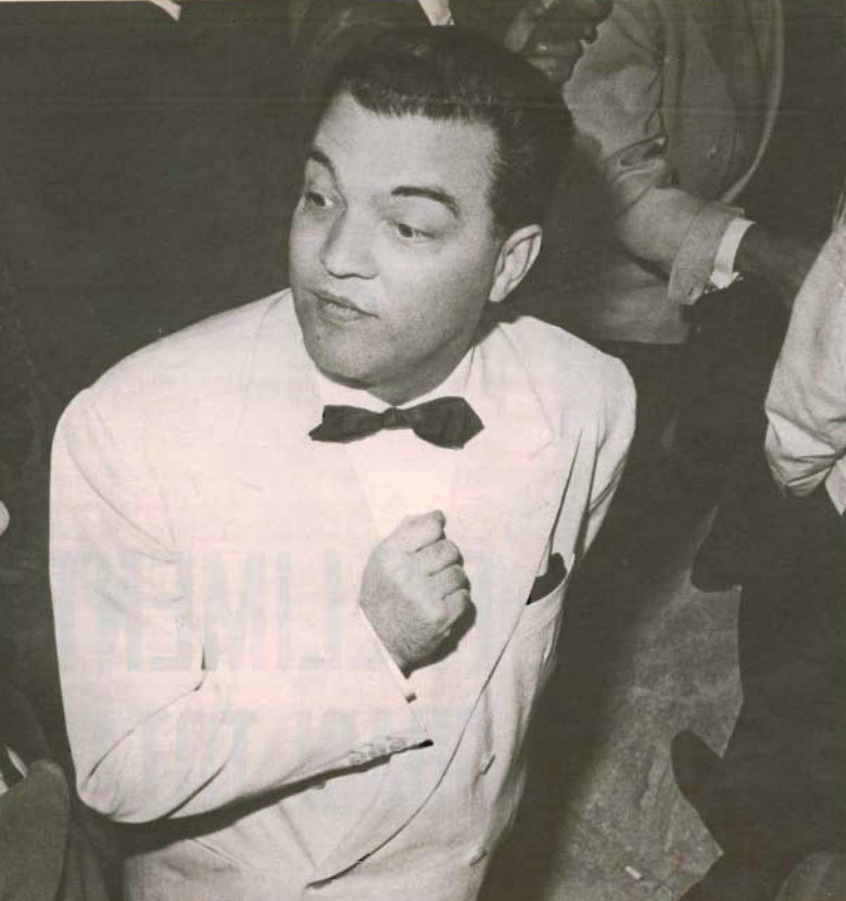 Floris Luigi Ammannati, director of the Venice Film Festival, at the the 1959 Festival